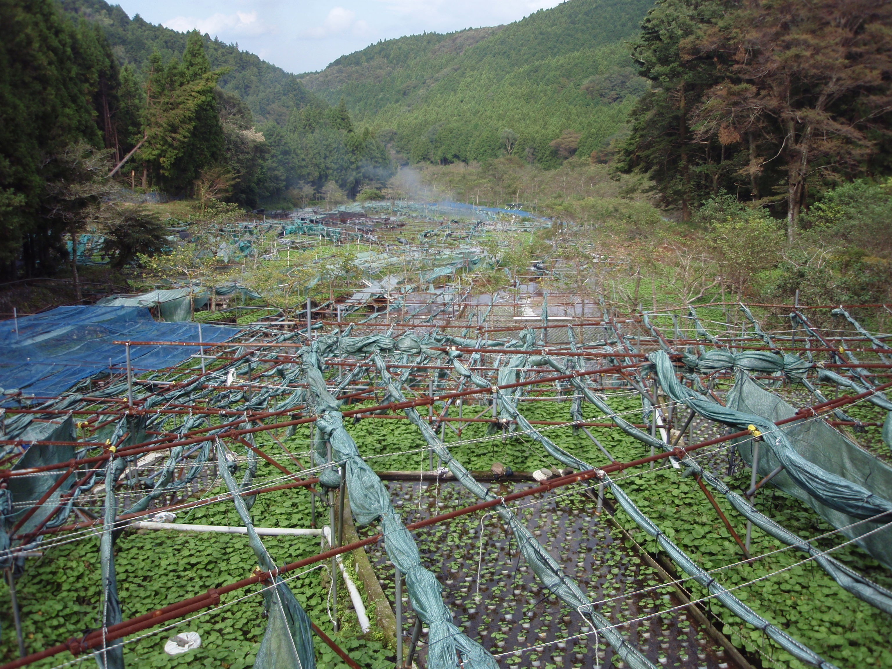 Ikadaba Wasabi Fields in Izu, Shizuoka Prefecture, Japan.